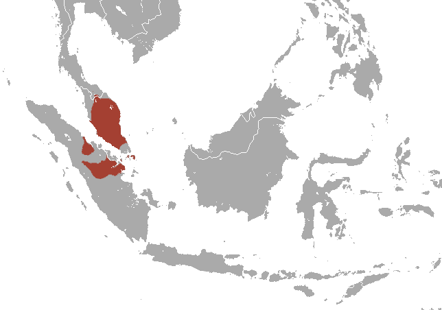 White-thighed Surili (Presbytis siamensis) range